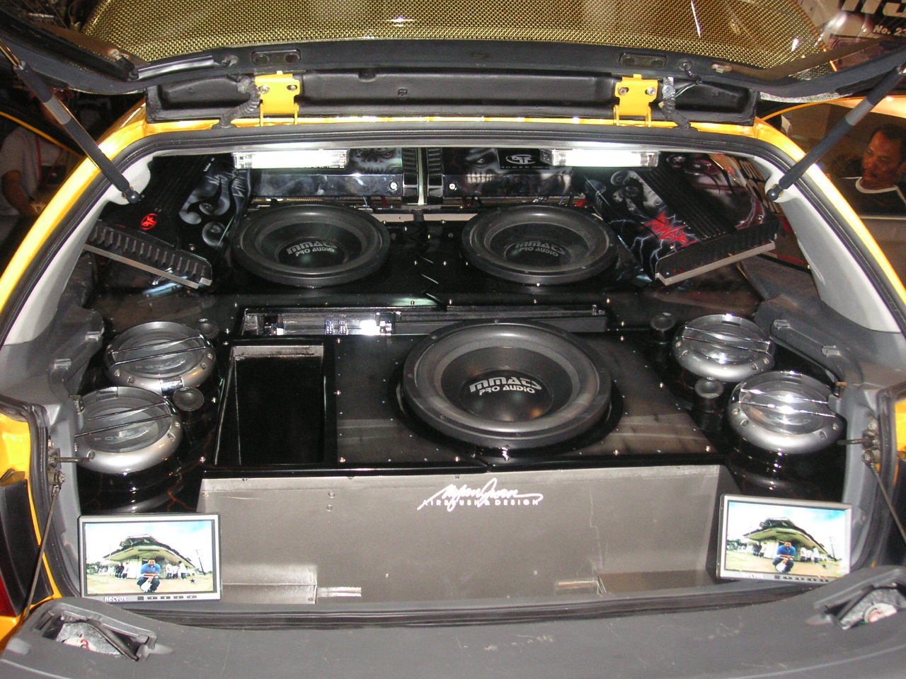 User's own picture. Subwoofers used in car audio competition. CELTIC FC